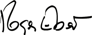 Roger Ebert's signature